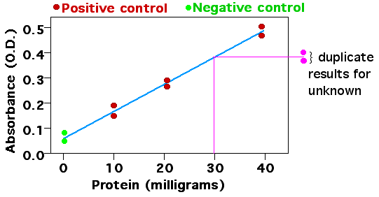 Illustration for positive control, negative control, and replicate samples in an experiment. Source: I (John Schmidt, Wikipedia user JWSchmidt) made this illustration with ClarisDraw.